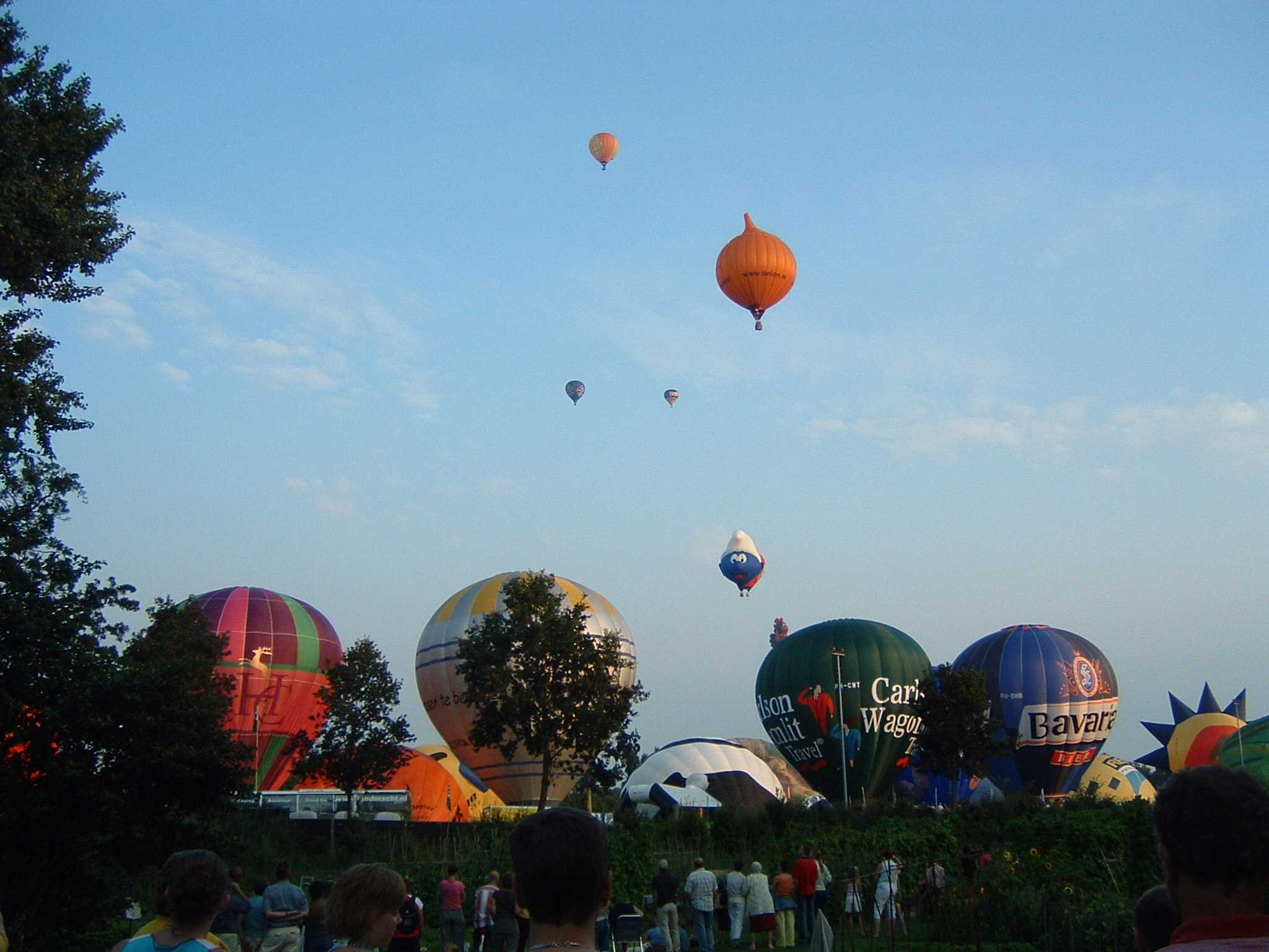 Some balloons (PH-CWT, PH-BHB ...) on the Hot Air Balloon Festival 2004 in Joure province of Friesland in the Netherlands.